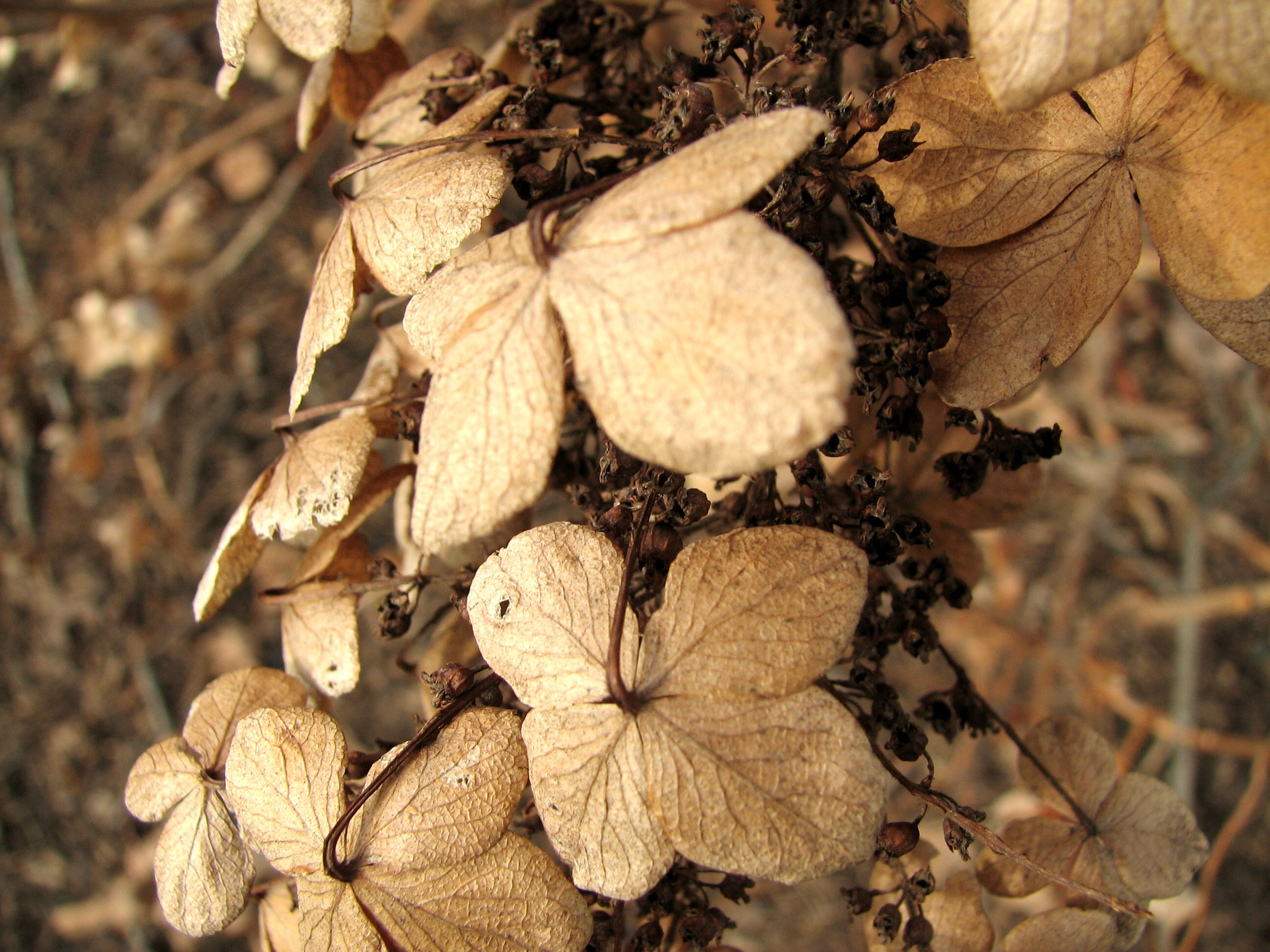 Hydrangea flowers, dead in winter, near Columbus, Ohio, USA.